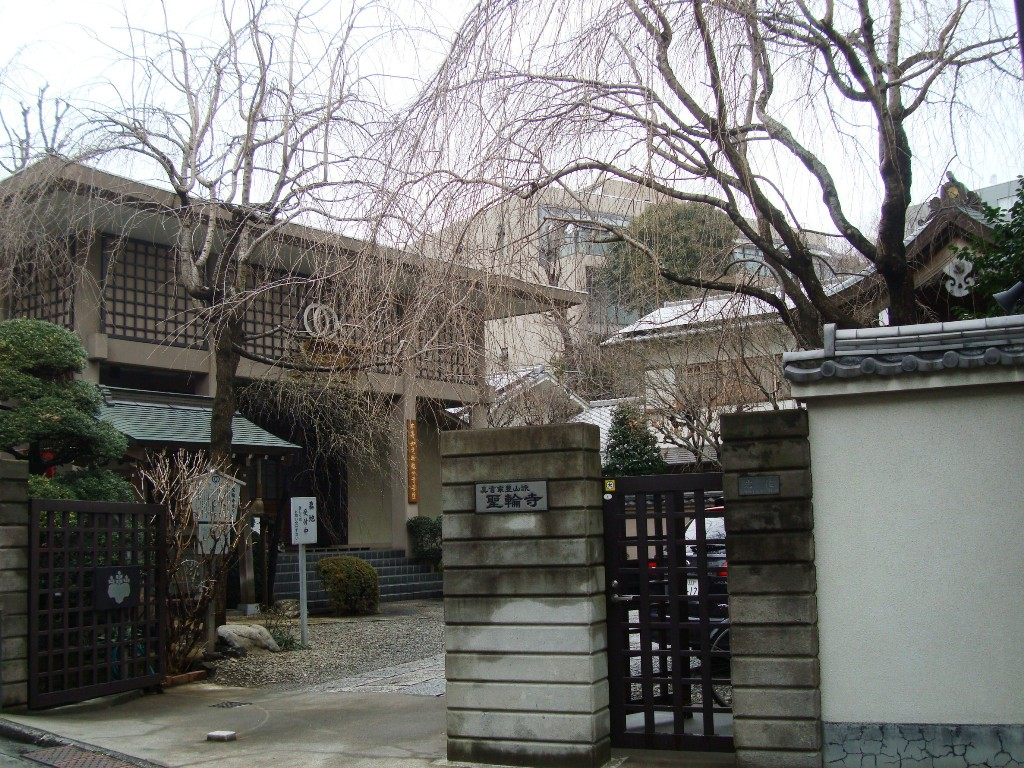 Shorinji temple at Sendagaya, Tokyo